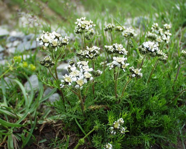 (en) Musk Milfoil (Achillea erba-rotta subsp. moschata), a photography originating of the internet site The accord of the autor, H. Brisse, is here. (fr) Achillée musquée (Achillea moschata), une photographie issue du site internet L'accord de l'auteur, H. Brisse, se situe ici. (de)Moschus-Schafgarbe, (it)Millefoglio del granito